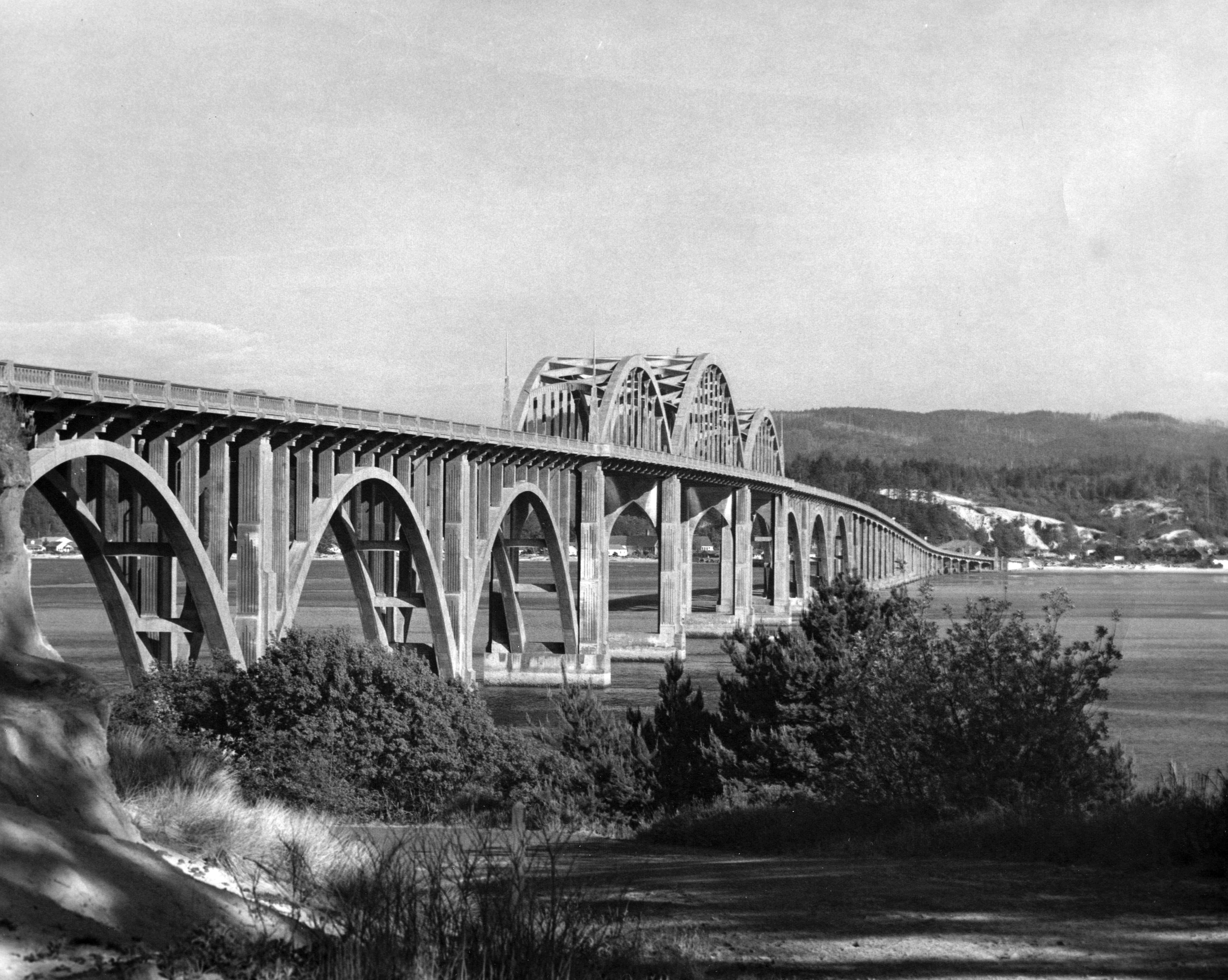 Original Collection: Gifford Photographic Collection OSU CommonsItem Number: P218:WMG 1170